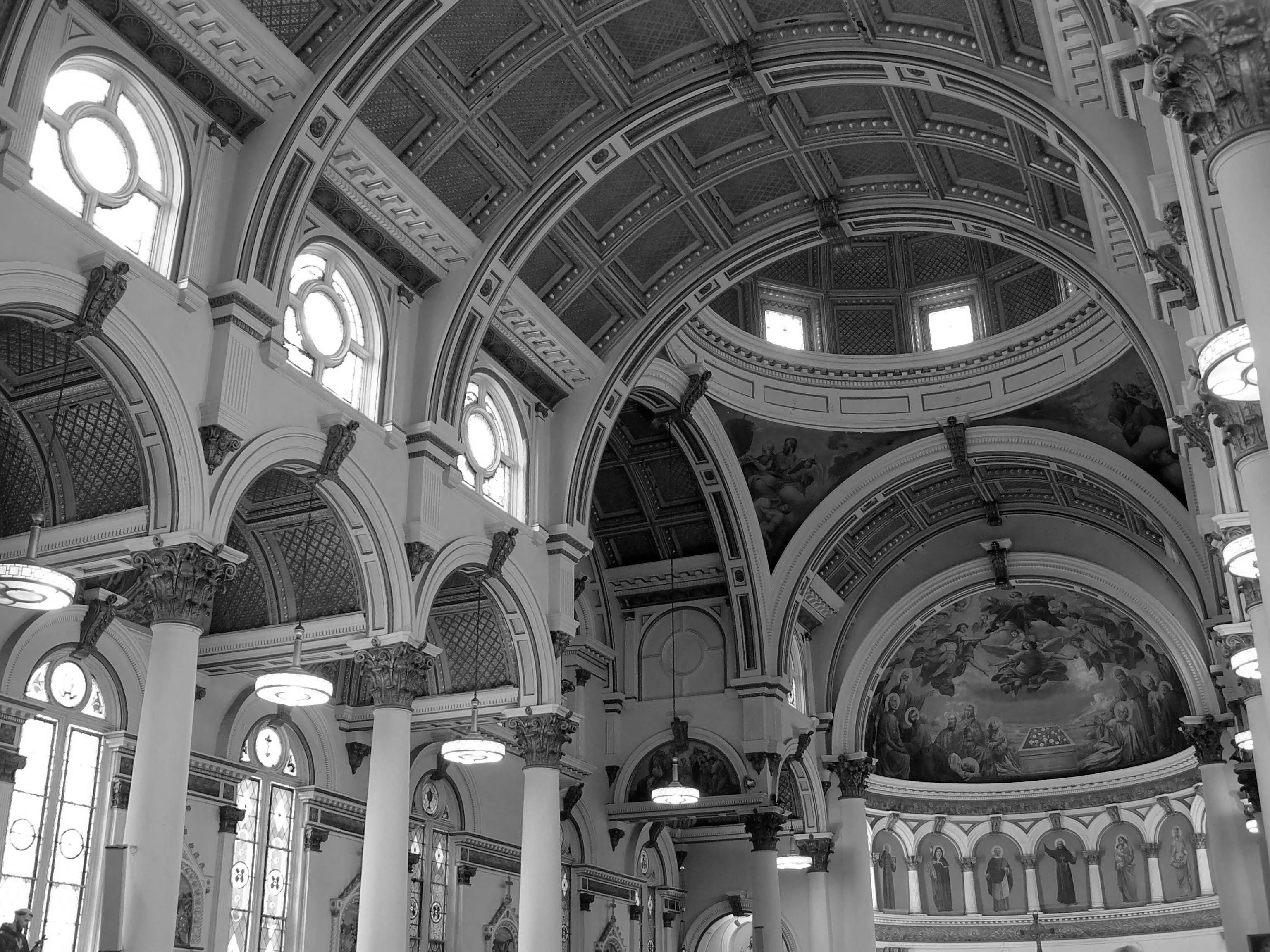 Saint Leonard's Church, North End, Boston